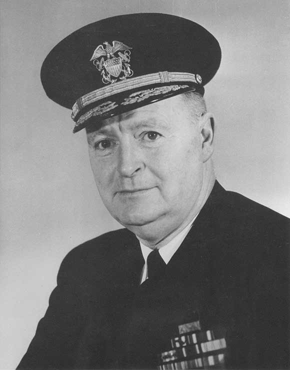 Alexander Lyle received the Medal of Honor for his actions when he saved the life of Corporal Regan during a battle on the French Front, 23 April 1918.